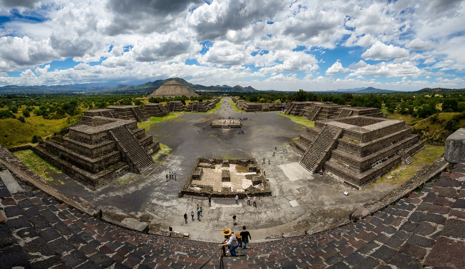 Panoramic view from the summit of the Pyramid of the Moon, with the Pyramid of the Sun on the far left.